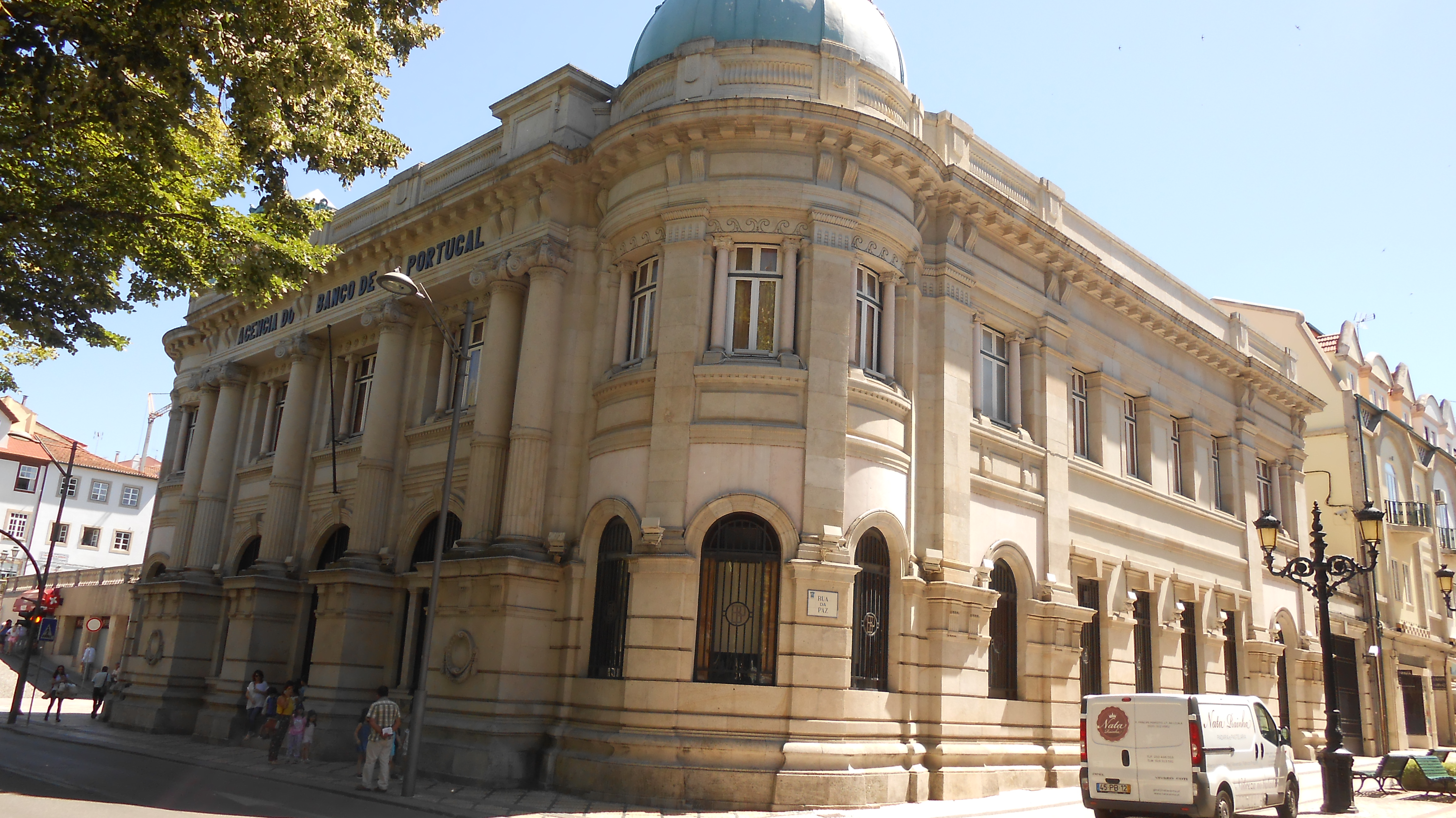 The Banco de Portugal in Viseu is located at the central Rossio square, in front of the town hall.